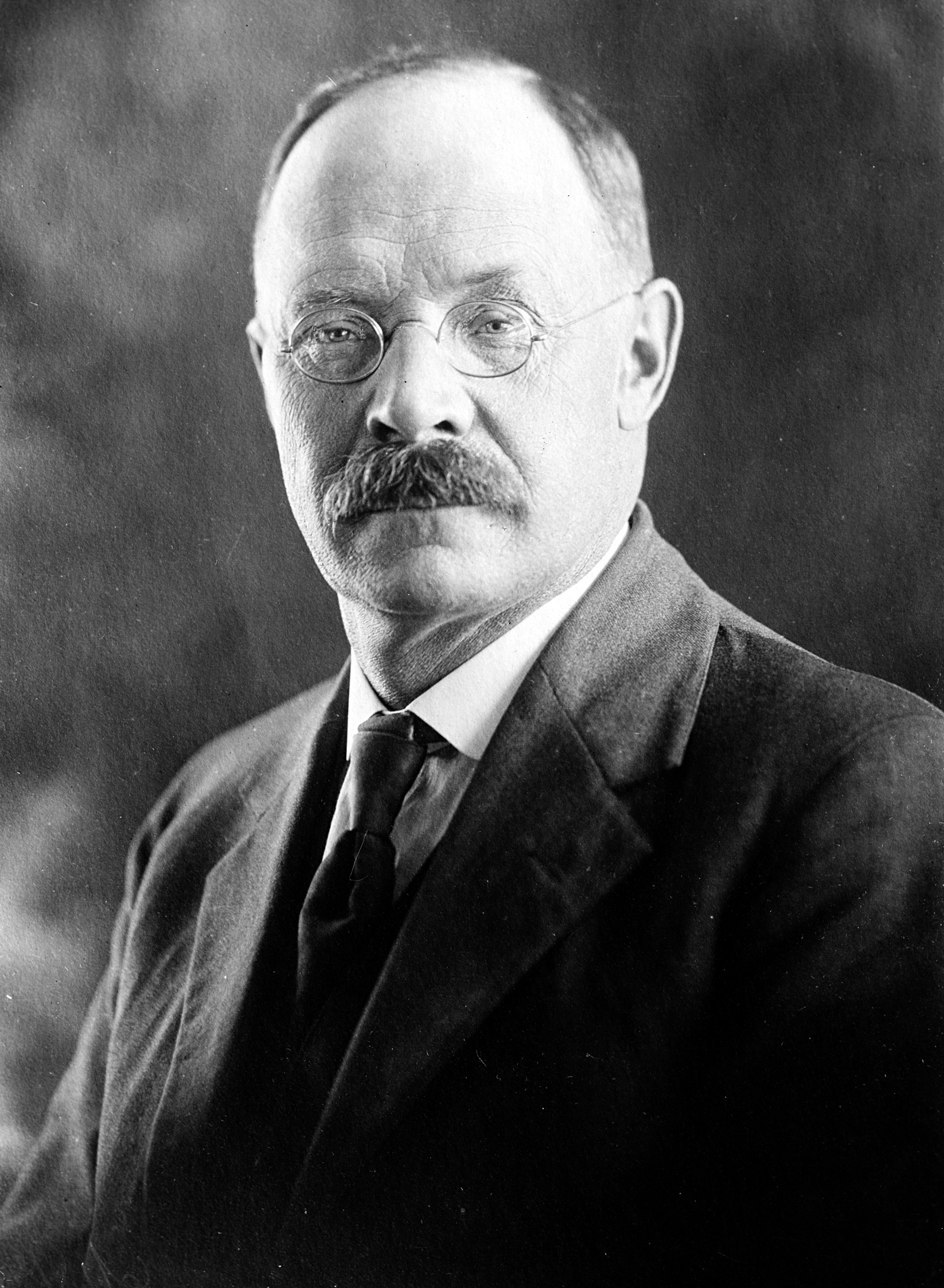 Magnus Johnson, US Senator from Minnesota